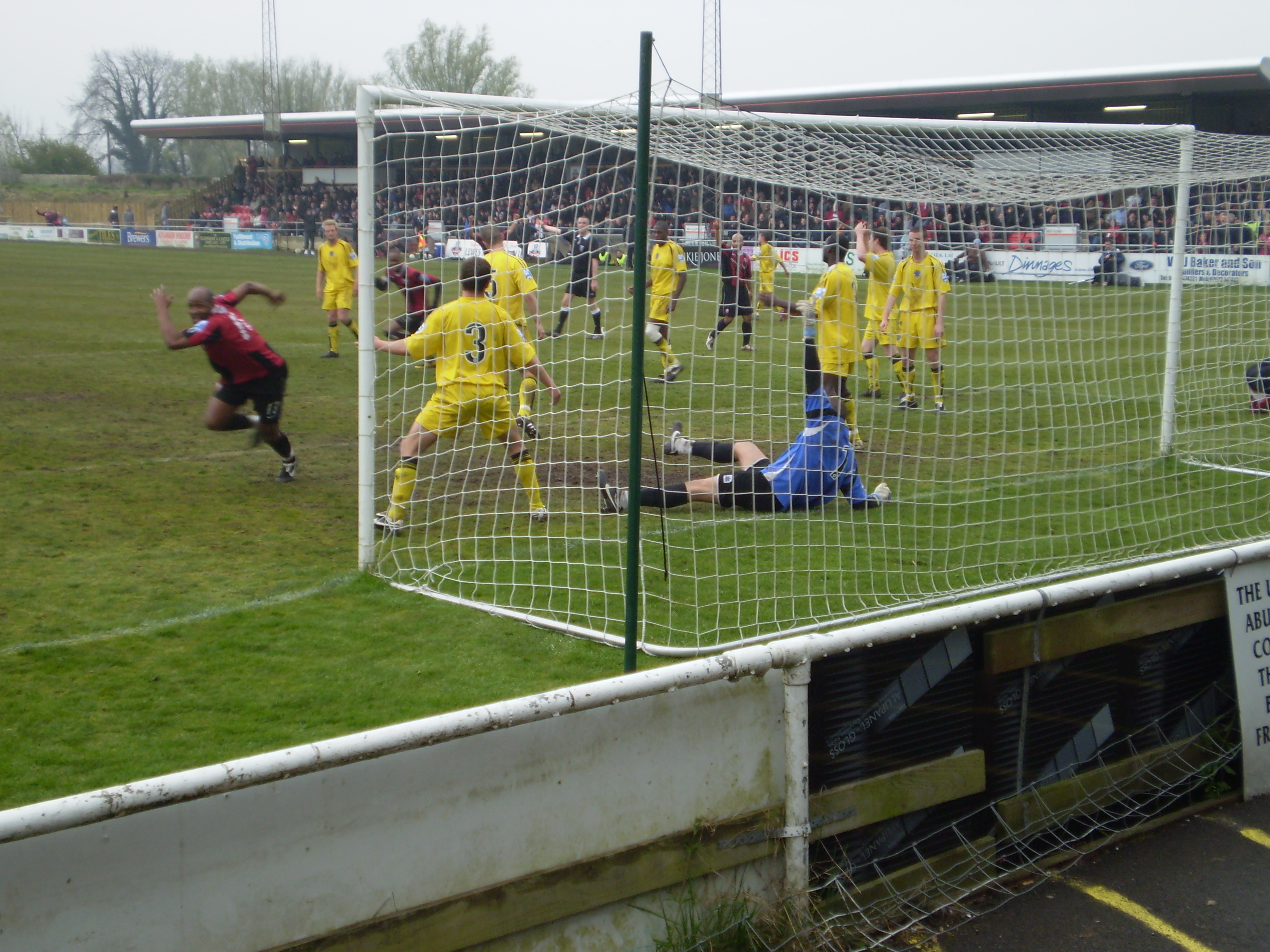 Jean-Michel Sigere wheels away after scoring a late goal against Dorchester Town F.C., to ensure the 2–0 win which clinched the 2007–08 Conference South title for Lewes F.C.